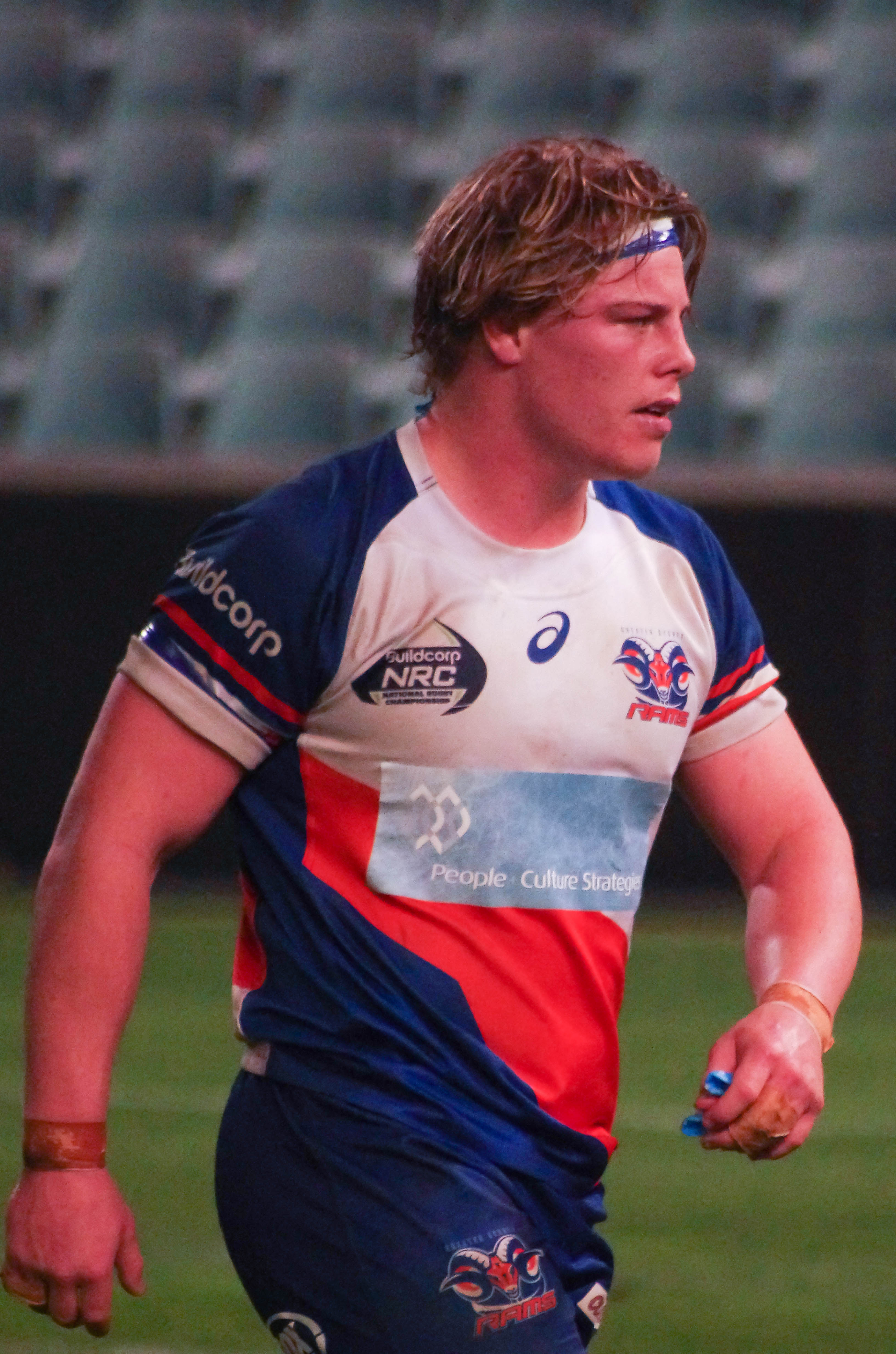 Australian rugby union player Hugh Roach.